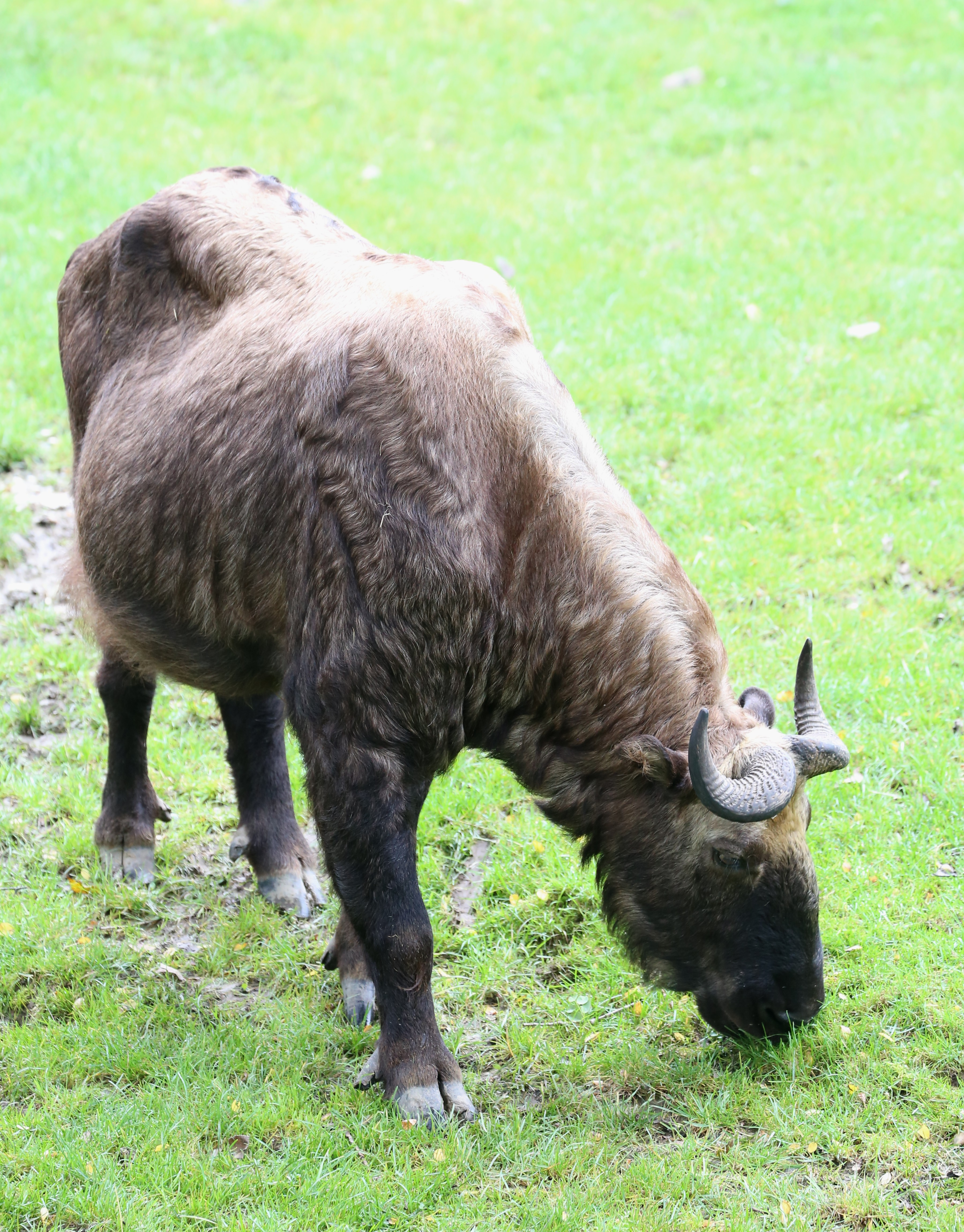 Mishmi-Takin, Budorcas taxicolor taxicolor, Zoo Augsburg